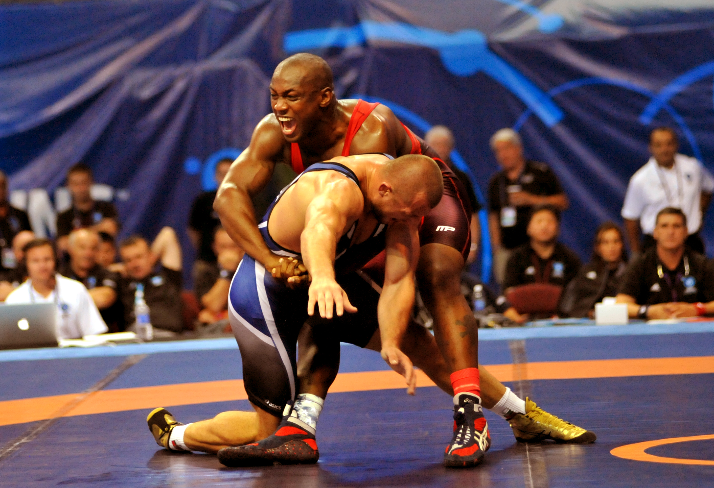 U.S. Army World Class Athlete Program wrestler Sgt. Caylor Williams battles Bulgaria's Elis Guri in the second round of the 2015 World Wrestling Championships on Labor Day at the Orleans Arena in Las Vegas. Guri won the match 4-4 on criteria, forcing Williams to wait and see if Guri reaches the finals, which would allow Williams to wrestle back in the repechage round and remain in medal contention. U.S. Army photo by Tim Hipps, IMCOM Public Affairs